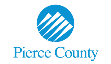 The official flag of Pierce County, Washington, USA